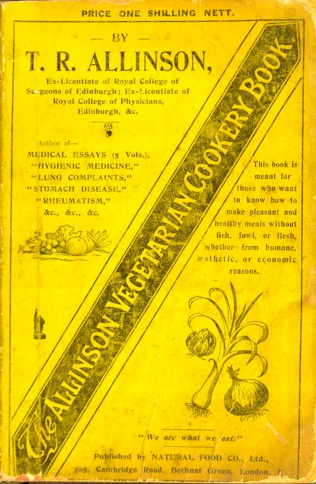 Front cover of Dr. Allinson's Vegetarian Cookery, published in 1910.